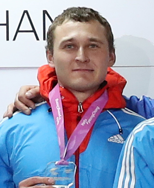 Vasiliy Kondratenko in Pyeongchang, IBSF World Cup 2016/17 finale